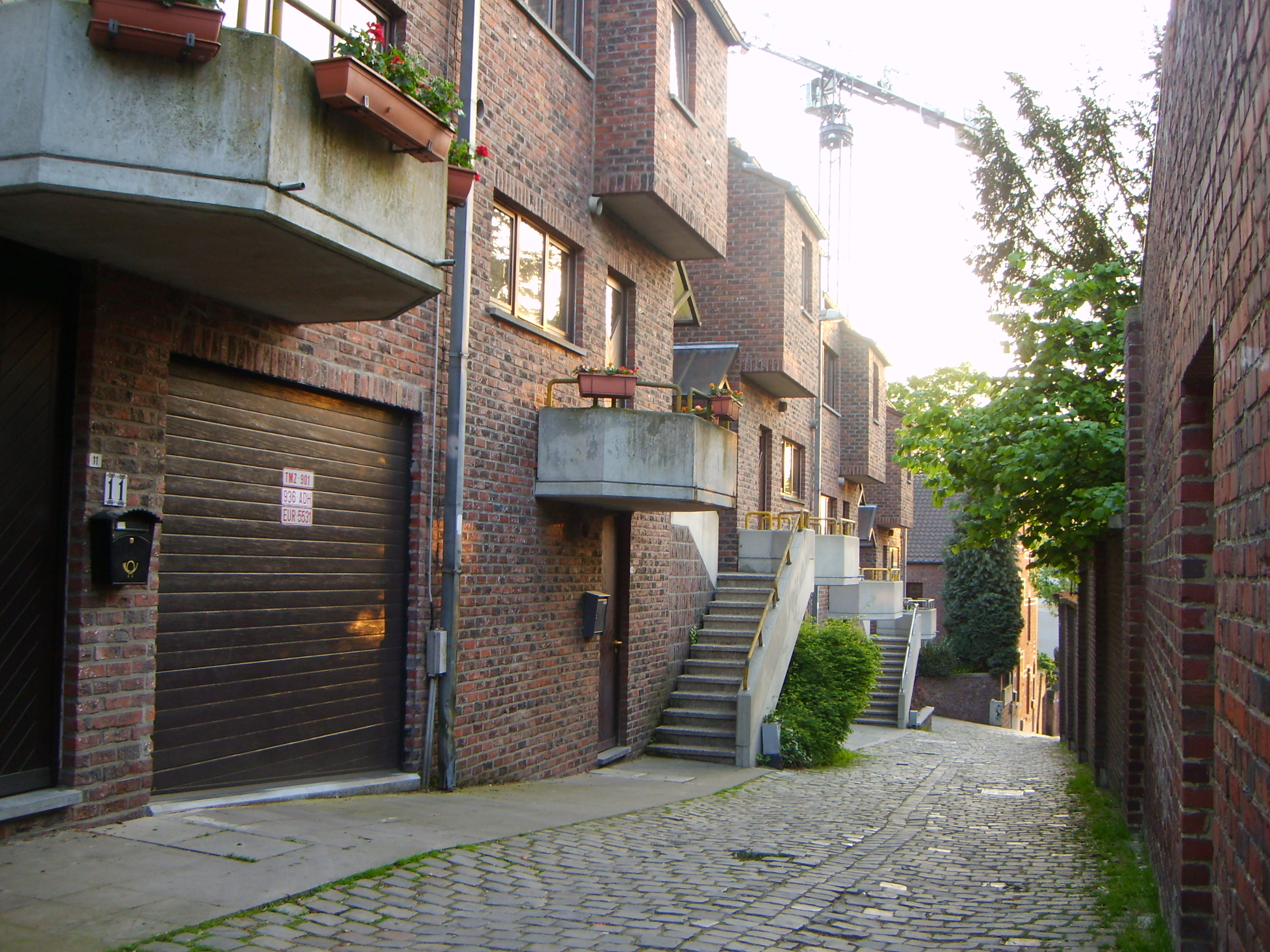 Leuven - Ramberg